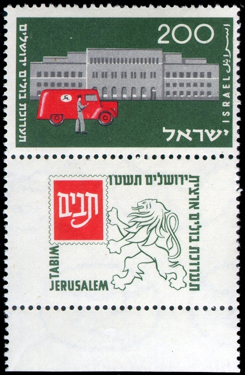 TABIM stamp - 200 mil. Issued on the occation of the National Stamp Exhibition in Jerusalem, 1954 Inscription: "Stamp Exhibition Jerusalem". Inscription on tab: "National Stamp Exhibition, Jerusalem, 5715".